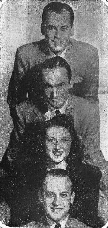 The Pied Pipers